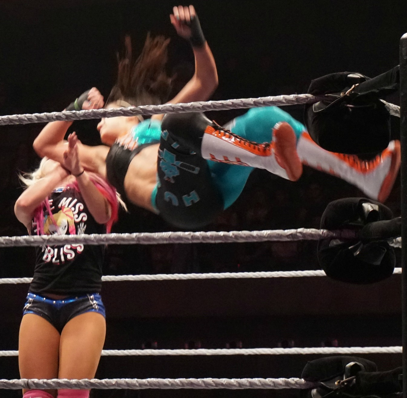 Bayley performing a Diving back elbow on Alexa Bliss during a WWE live event in May 12, 2017.